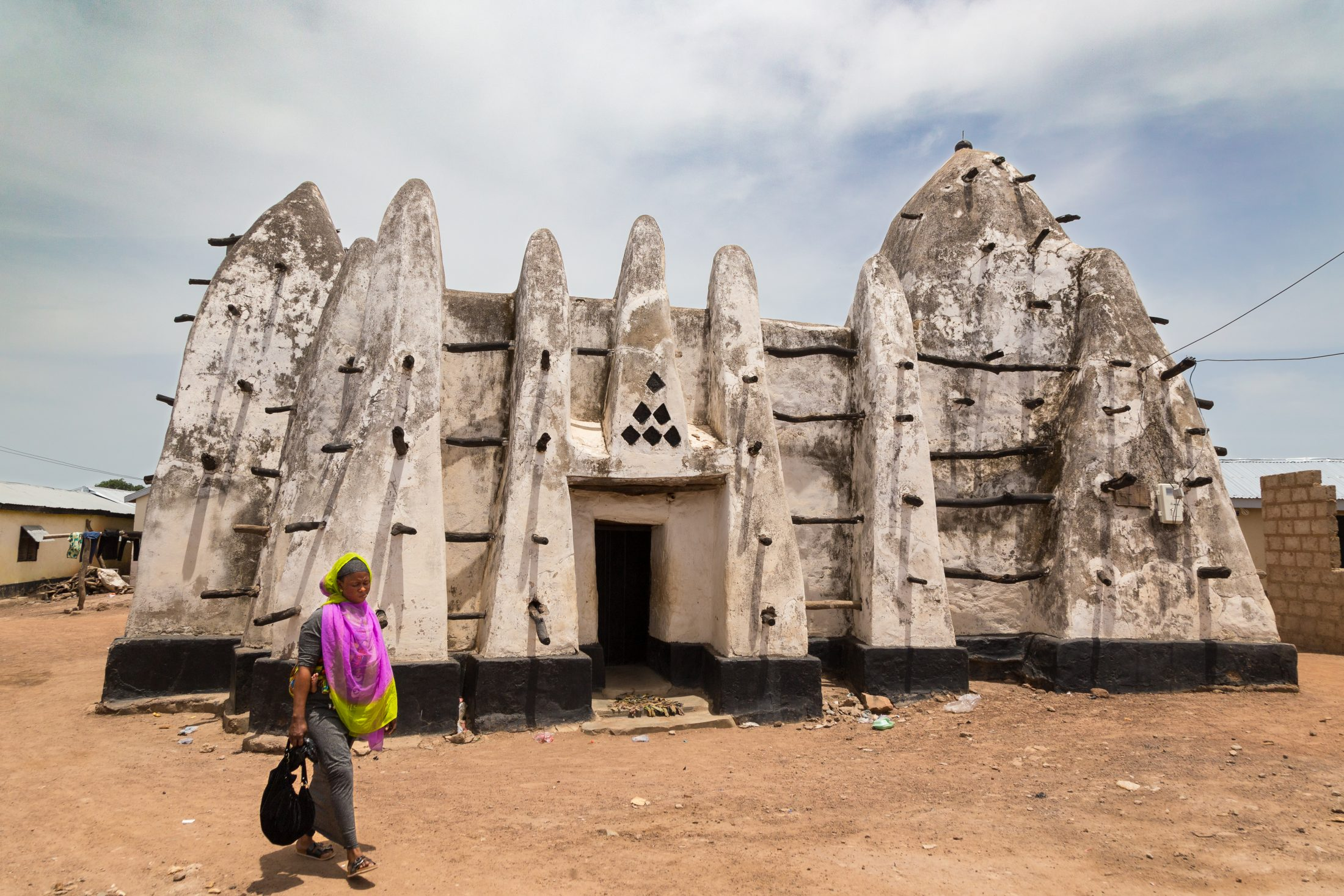 It is one of Ghana's remaining mud mosques in Bole